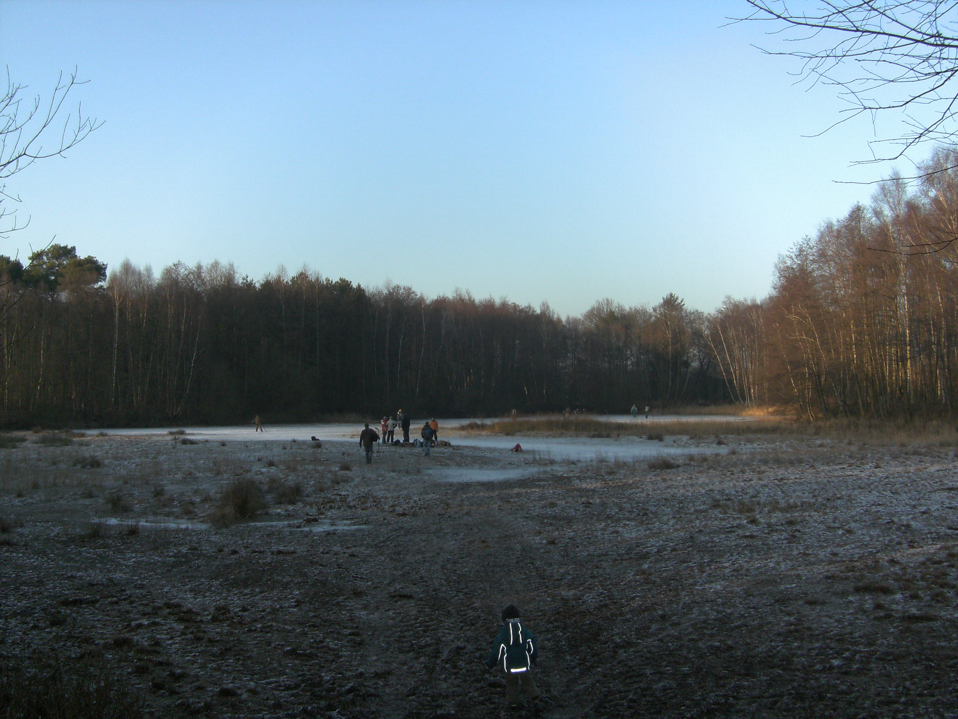 Halle (Westf) - Nature reserve Barrelpäule in winter